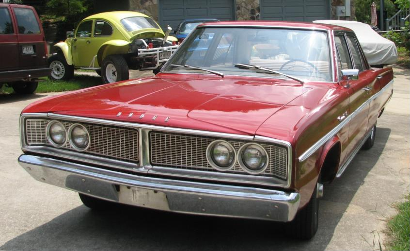 The 1966 and '67 shared the same body, but the '67 inserted the turn signals into the bumper and added small fender top blinkers. The grille was modified in the Charger style.